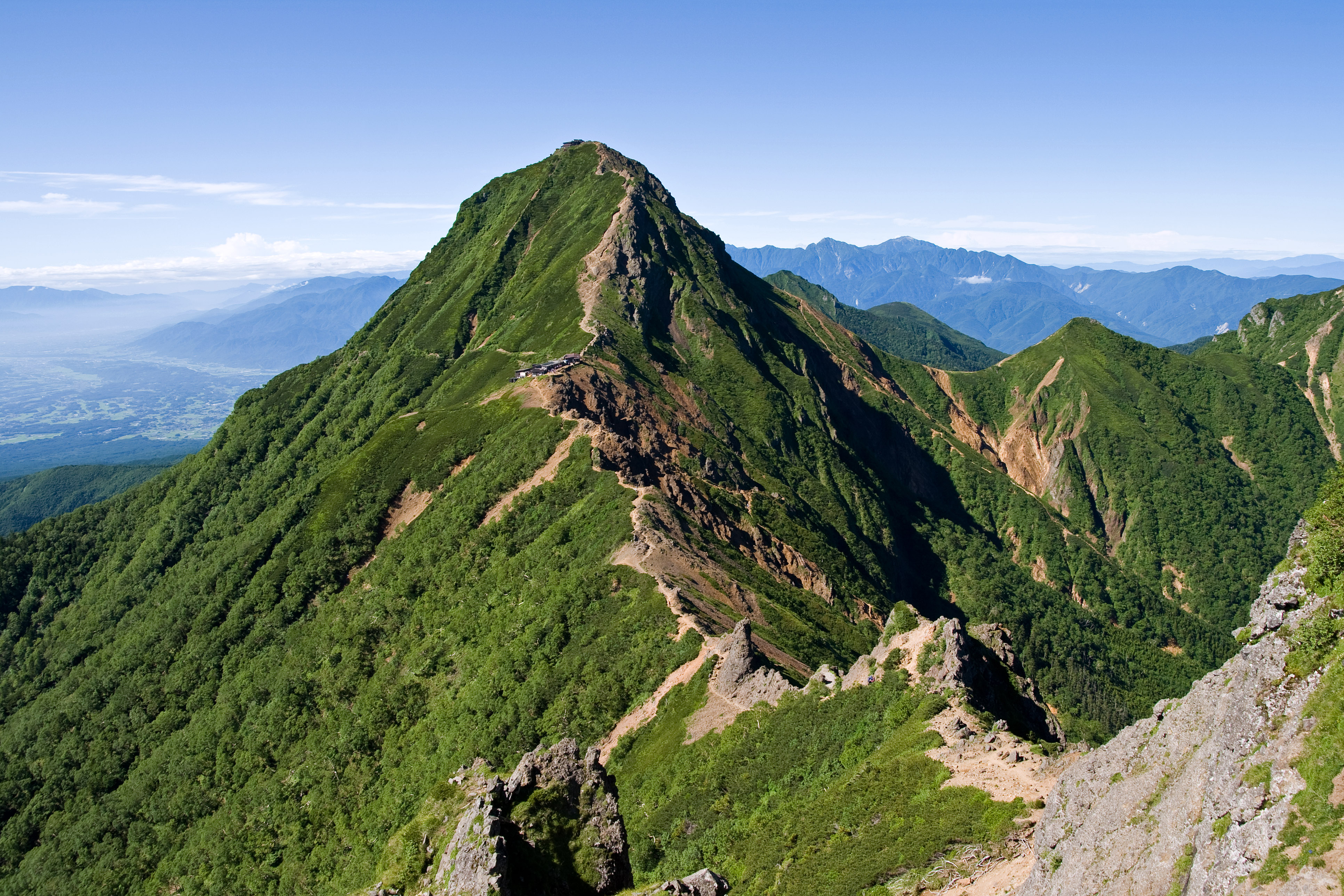 Mt.Akadake as seen from Mt.Yokodake in the Southern Yatsugatake Volcanic Group, Nagano Pref., Honshu, Japan.